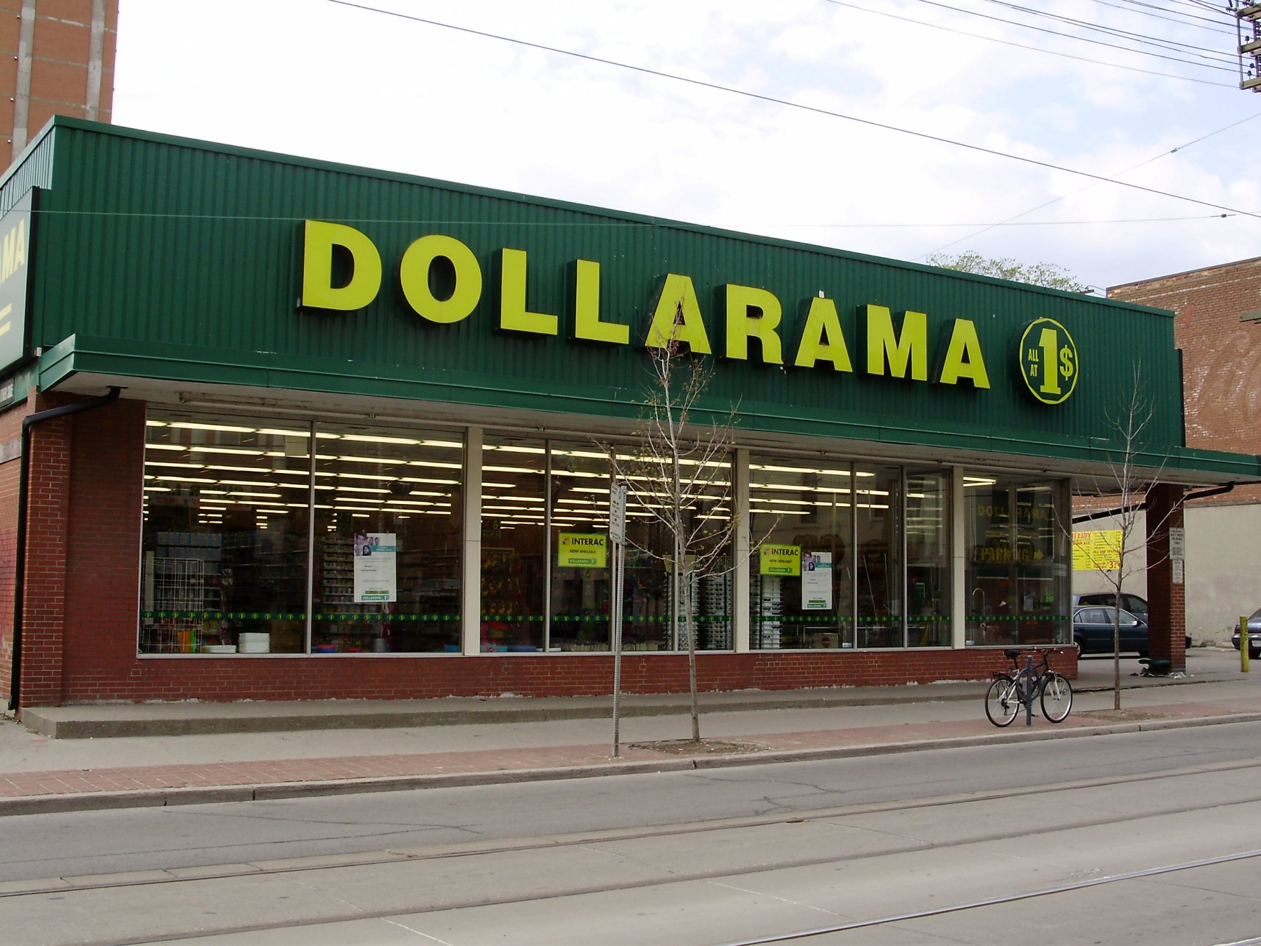 A Dollarama store in Parkdale, Toronto, 1337 Queen St. West, Toronto, Ontario, Canada